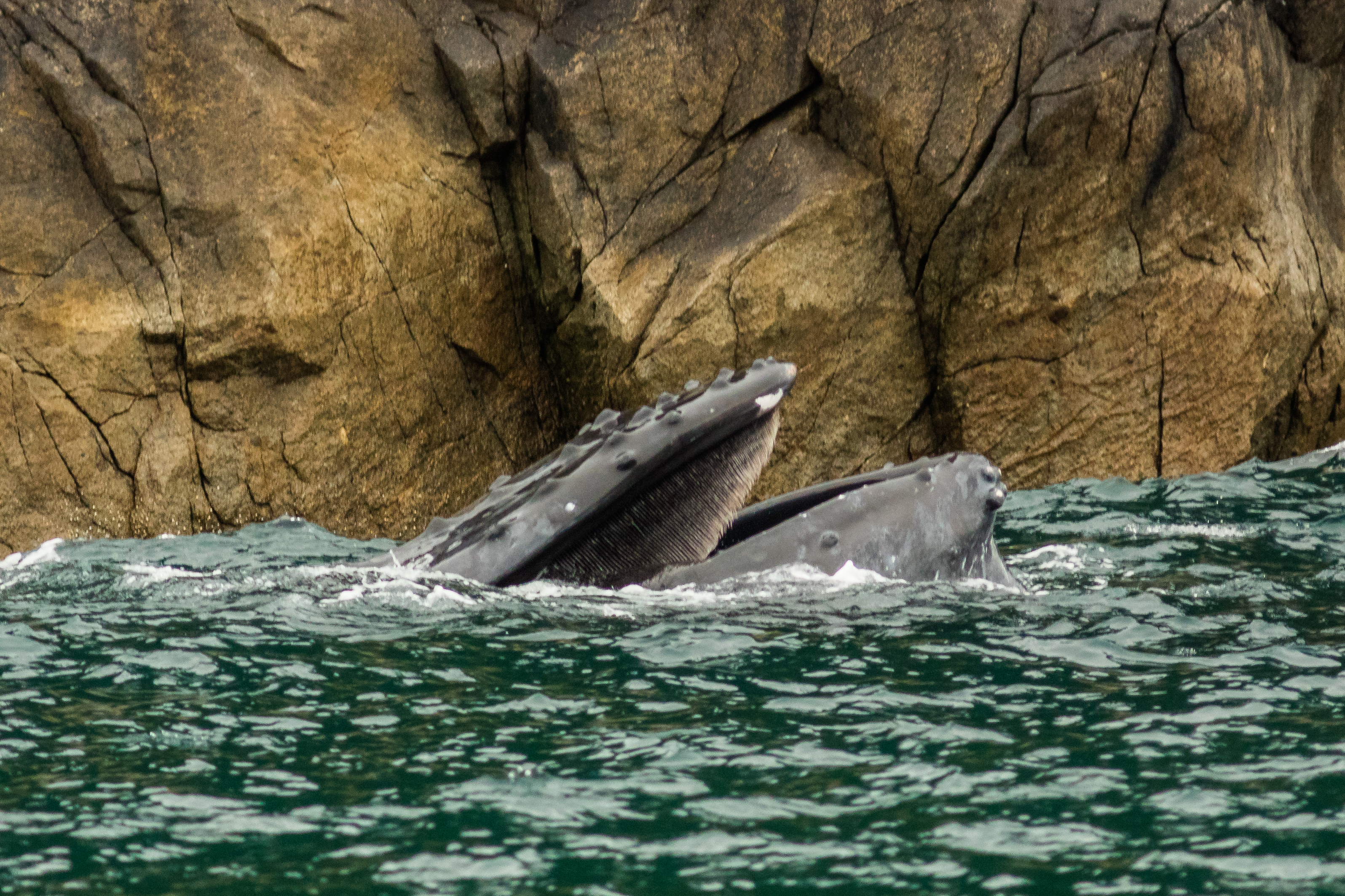 Humpback whale (Megaptera novaeangliae), Resurrection Bay, Seward, Alaska, United States